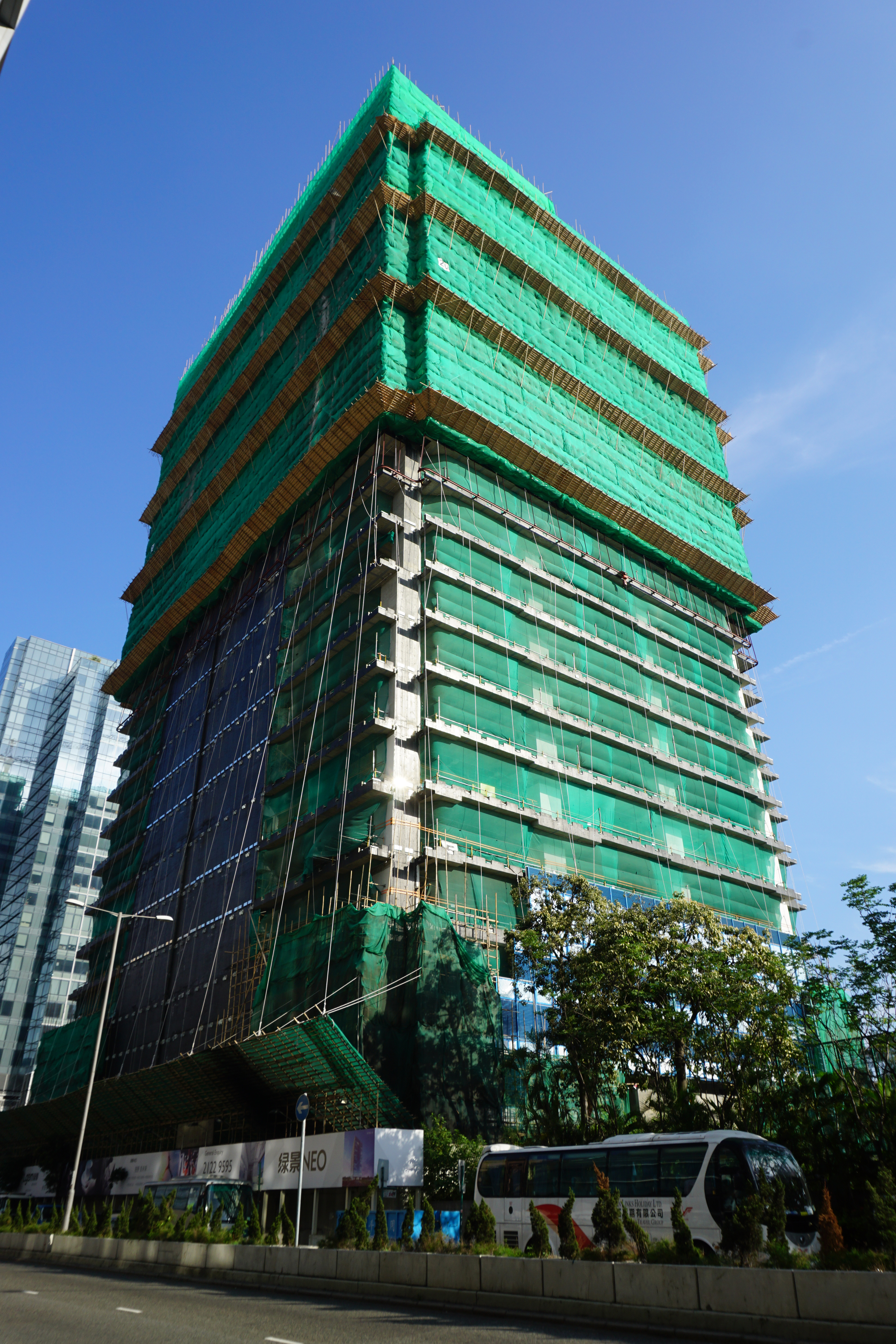 Hong Kong LVGEM NEO Project in Ngau Tau Kok, Hong Kong.